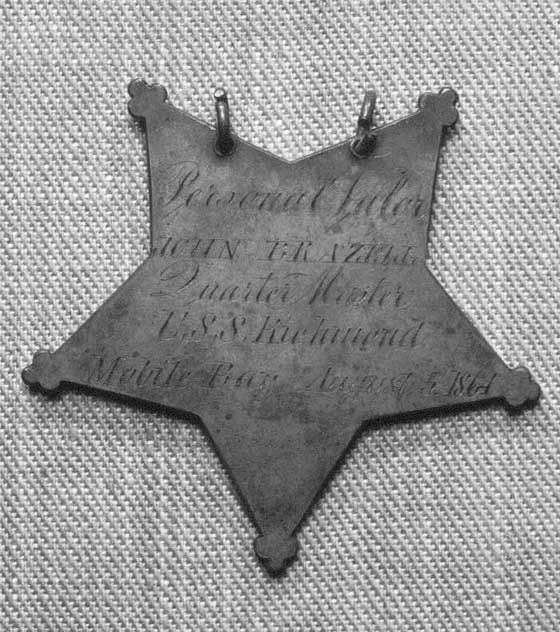 Reverse of a Medal of Honor awarded to Quartermaster John Brazell, United States Navy, for serving with "coolness and good conduct" as a gun captain on USS Richmond during the Battle of Mobile Bay, Alabama, 5 August 1864.